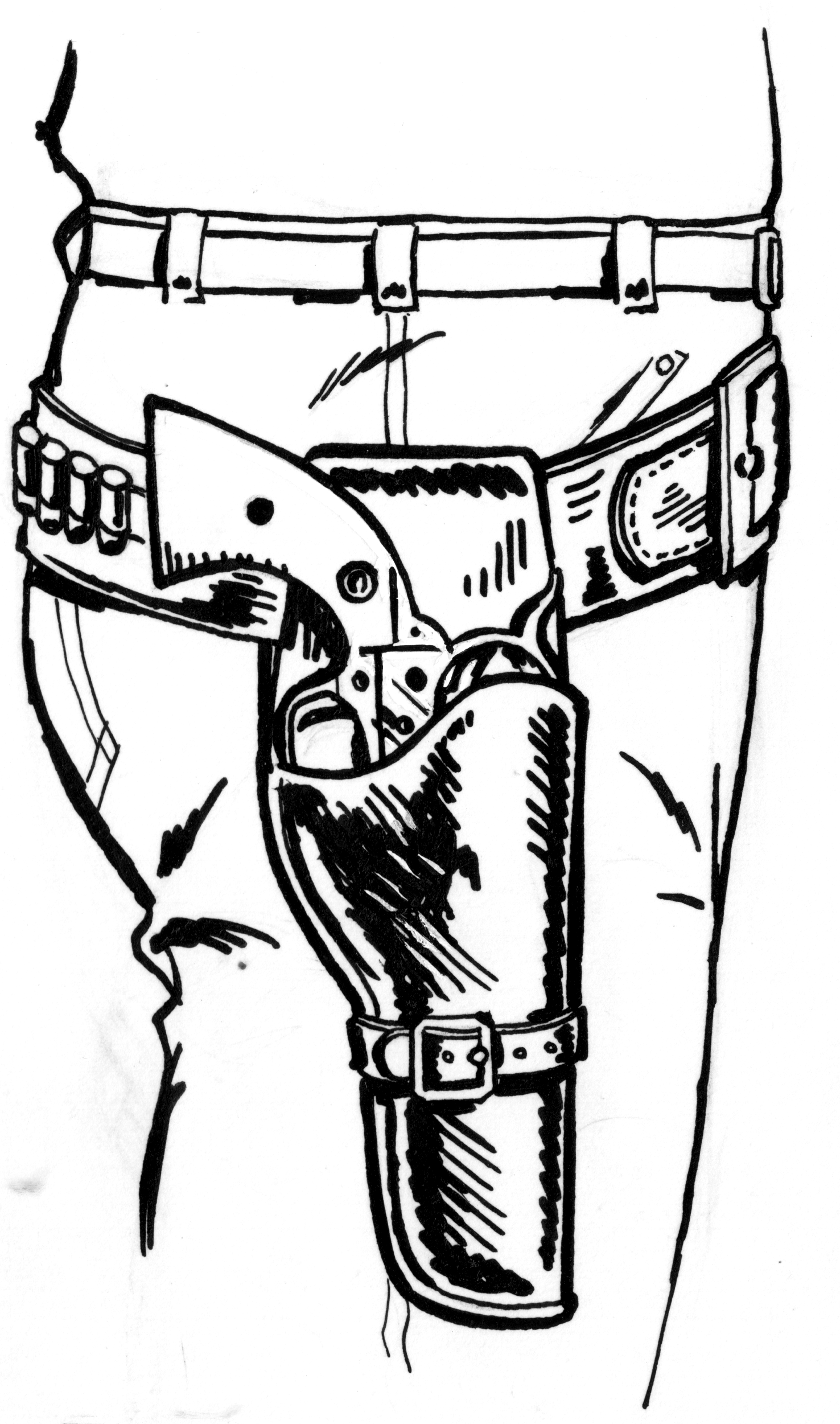 Line art drawing of a holster.